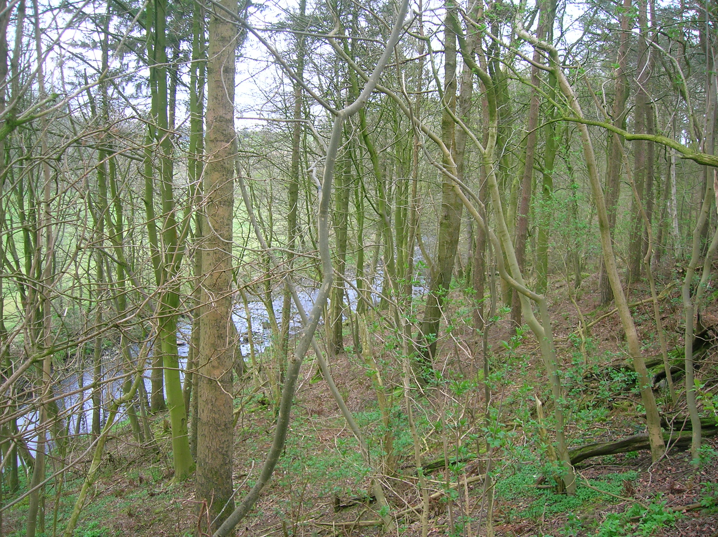 The Lambroughton Woods, Ayrshire, Scotland.